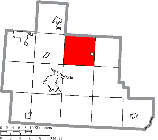 Map of the municipal and township boundaries of Athens County, Ohio, United States, as of the 2000 census, with the location of Ames Township highlighted. Township borders are shown only in unincorporated areas in order to differentiate incorporated and unincorporated areas more clearly.